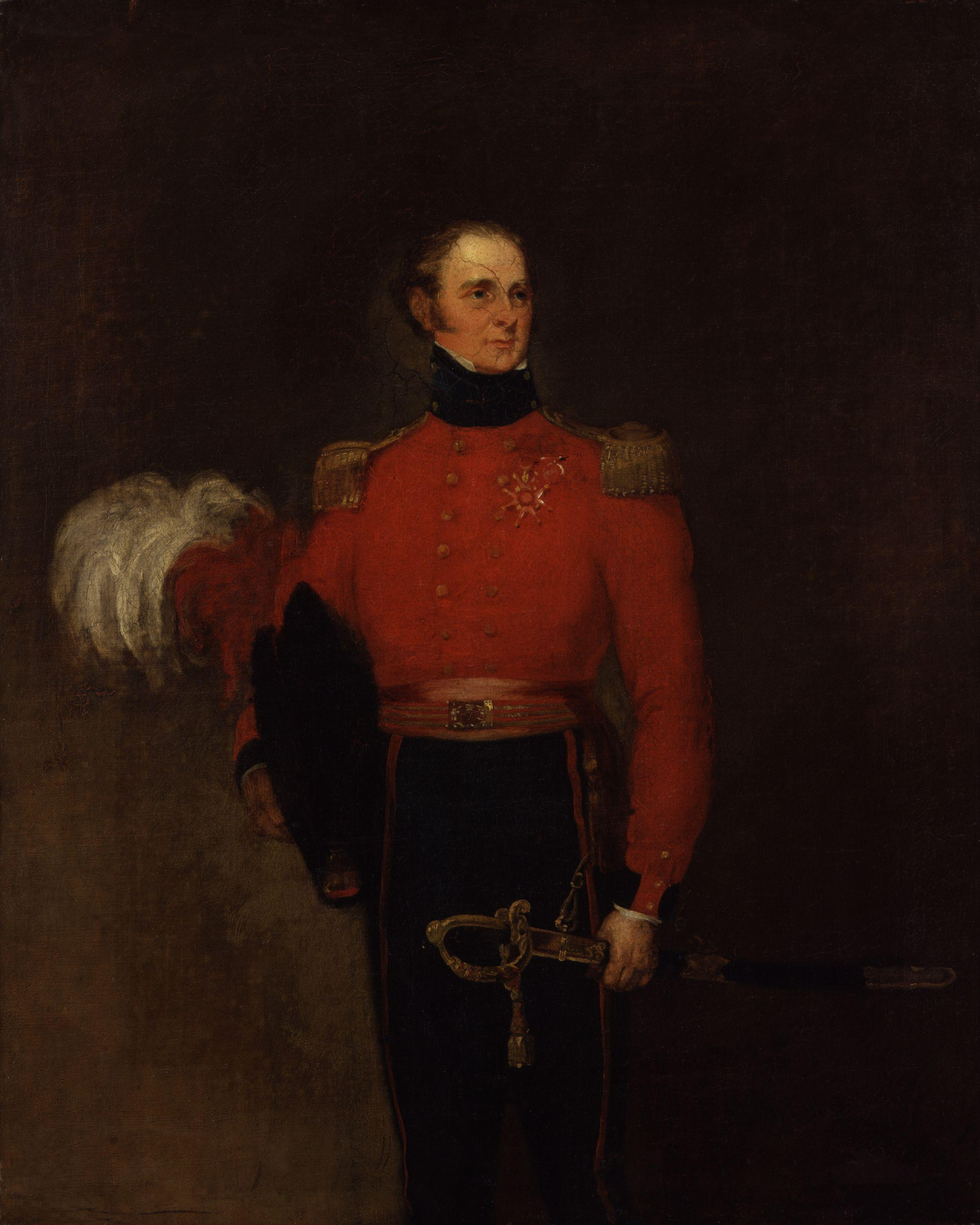 All images in this batch have been confirmed as author died before 1939 according to the official death date listed by the NPG.